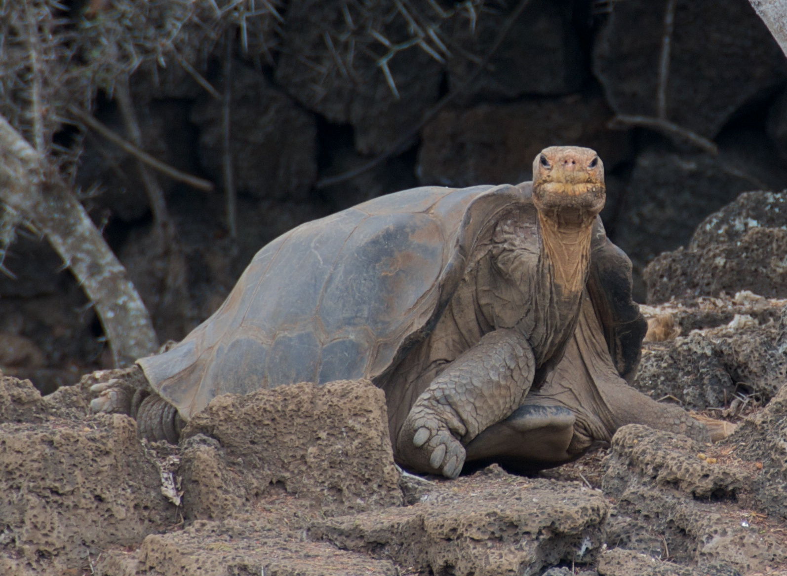 Lonesome George at the Charles Darwin Research Station, Santa Cruz Island, Galápagos Islands.